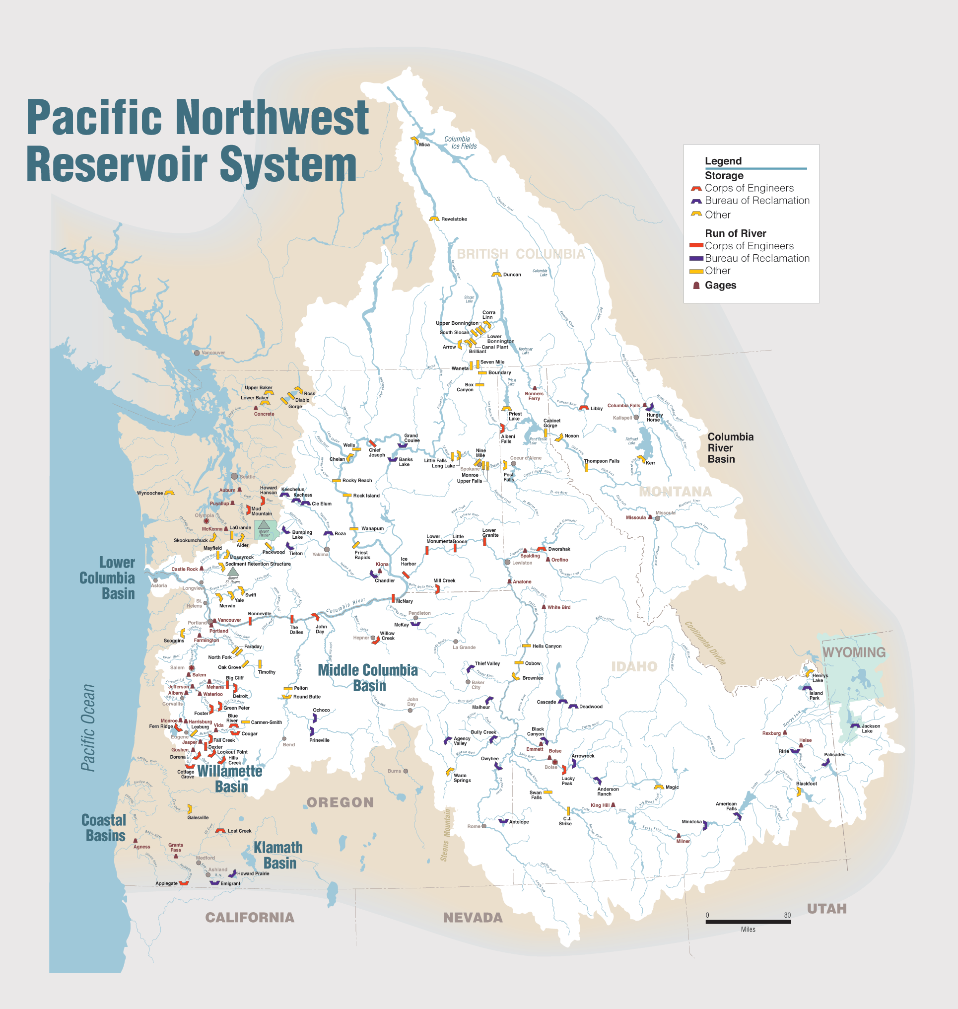 Maps of dams, drainage and estuaries along the Columbia River in North America (USA, Canada). Original caption: The Columbia River carved the Interior Columbia River Basin from the landscape of seven Western states and two Canadian provinces. The river itself flows from its headwaters in British Columbia, Canada through only two states, forming part of the Washington-Oregon border, the vast Interior Columbia River Basin is defined by the area drained by the river and its many tributaries. This 58-million-hectare area (about the size of France) extends roughly from the crest of the Cascade Mountains of Oregon and Washington east through Idaho to the Continental Divide in the Rocky Mountains of Montana and Wyoming, and from the headwaters of the Columbia River in Canada to the high desert of northern Nevada and northwestern Utah.